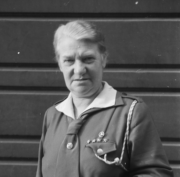 Depicted person: Margrethe Parm